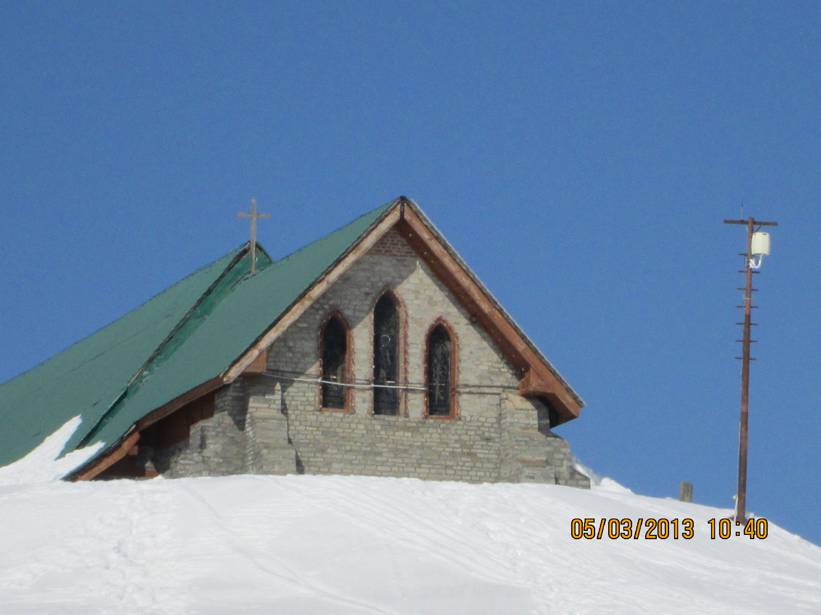 St Mary's church built in 1902 by the British. This church was given a face-lift in 2003.